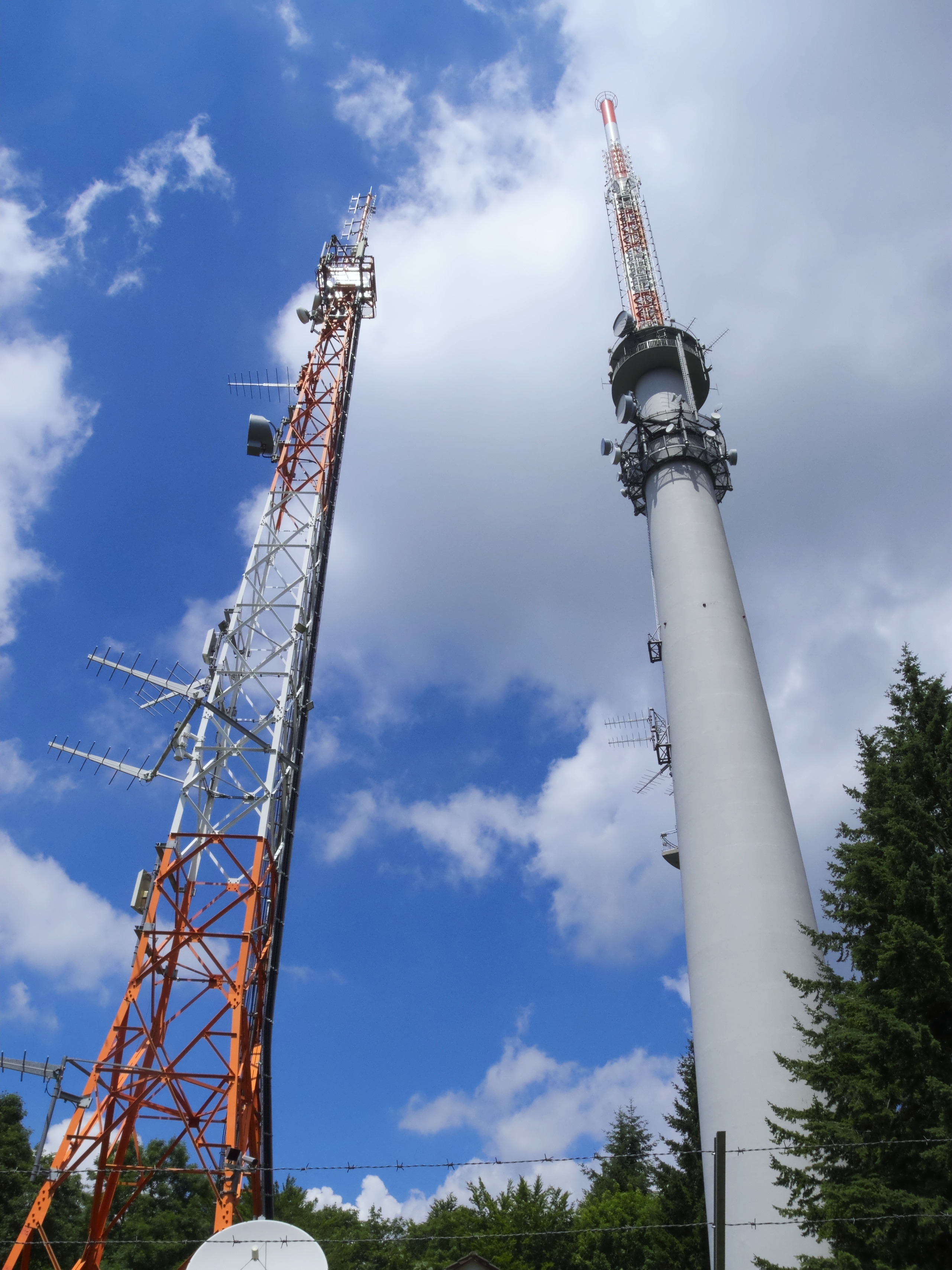 Aalen broadcast transmitter